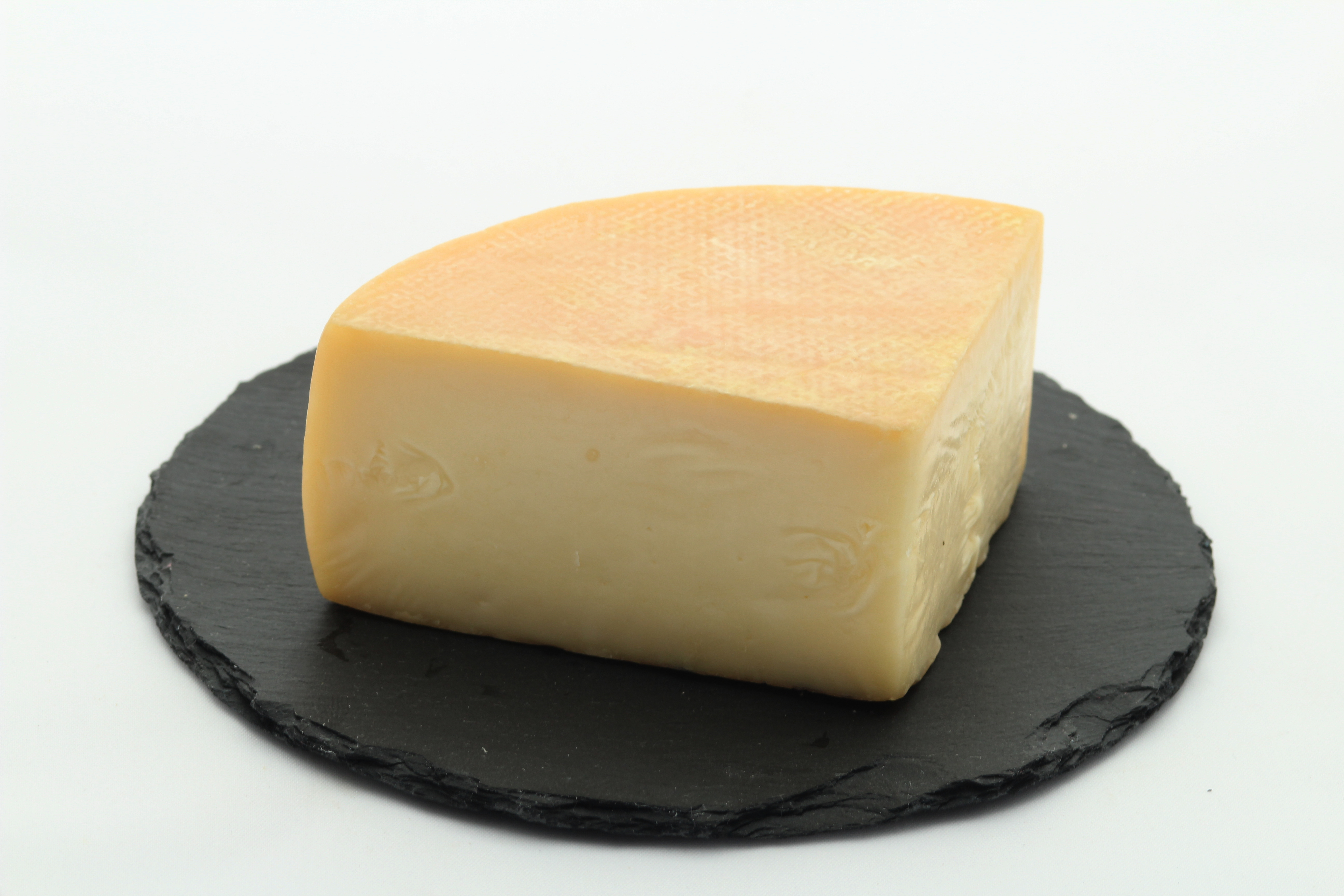 Tomme du Valais - Swiss semi-hard cheese, from whole raw cow's milk.